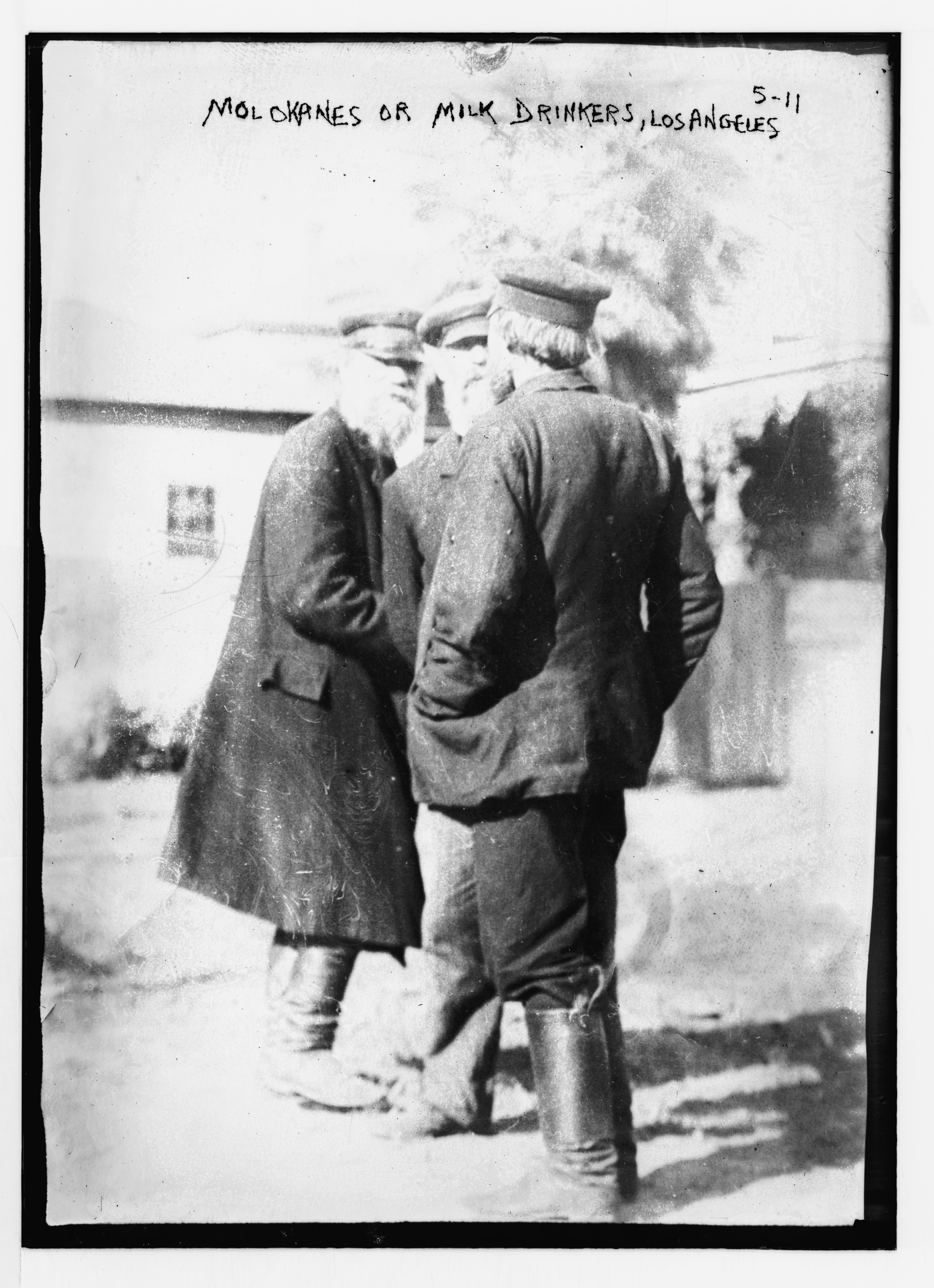 Title: Molokanes [Molokans] or milk drinkers, Los Angeles Abstract/medium: 1 negative : glass ; 5 x 7 in. or smaller.